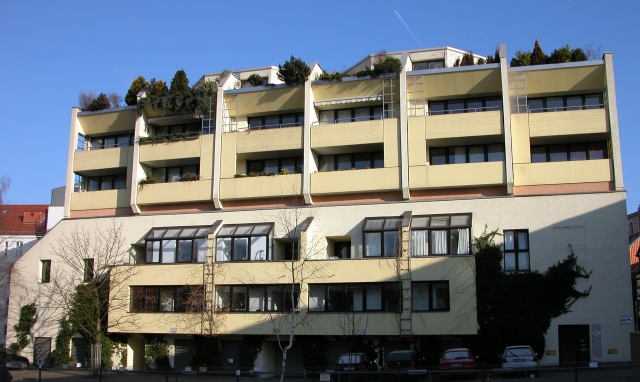 Brunswick, Germany: World War II high rise bunker Ritterstrasse turned into an apartment building.